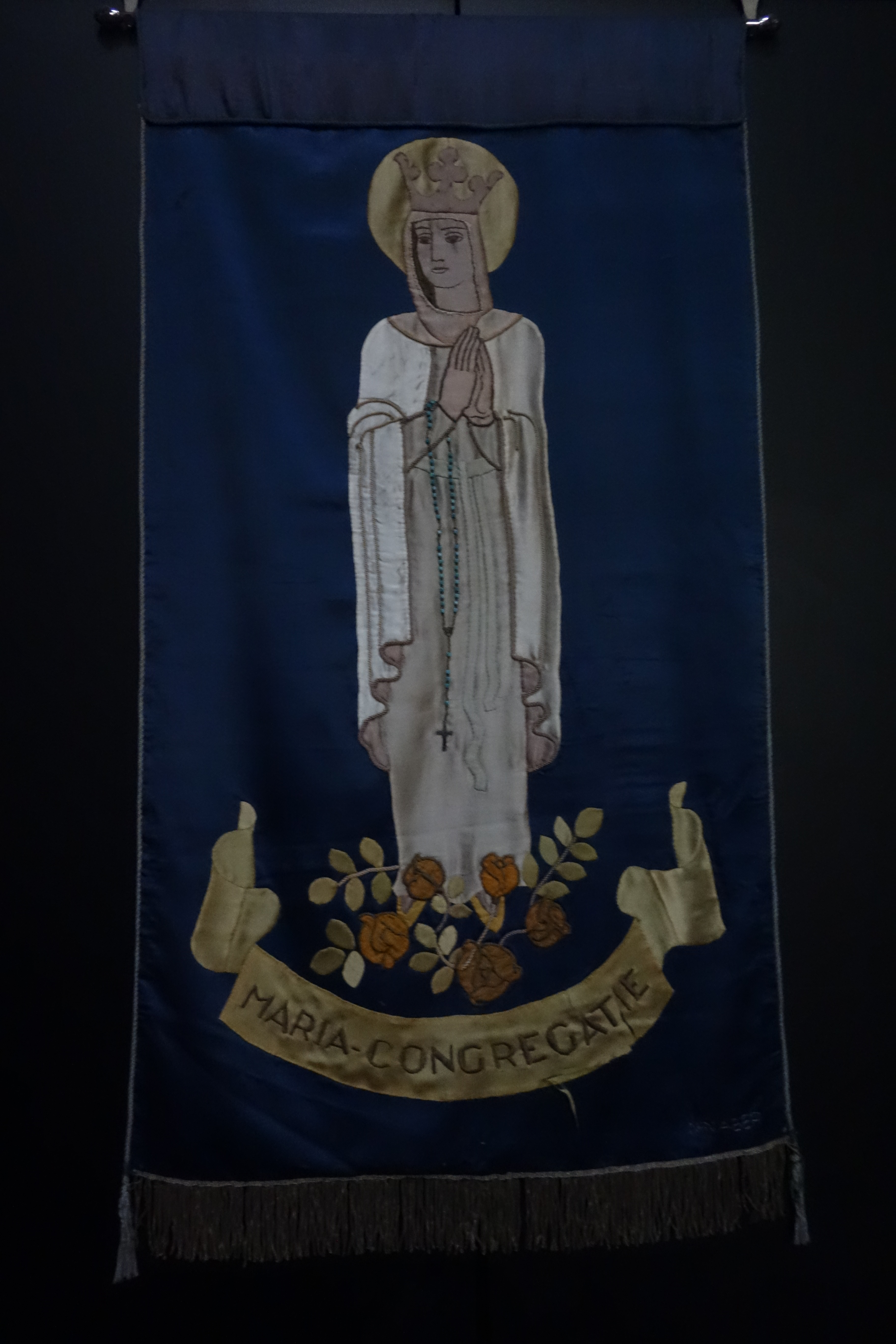 Maria devotion at the former Onze-Lieve-Vrouw-van-Lourdeskerk (Scheveningen).